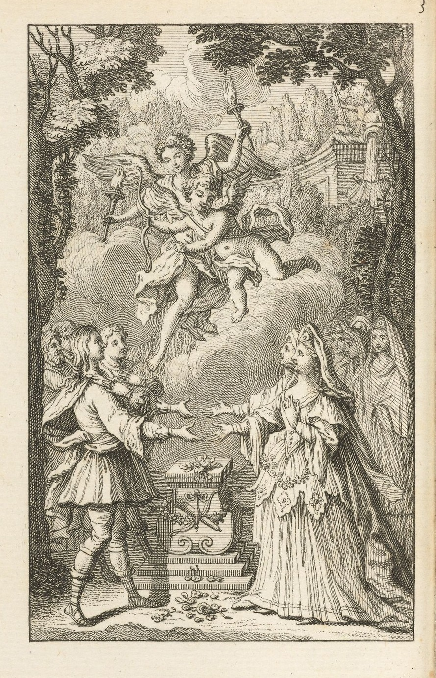 Plate engraving opposite page 1 from Les amours d’Ismene et d’Ismenias, 1743, by Pierre-François Godard de Beauchamps. Typ 715.43.374, Houghton Library, Harvard University